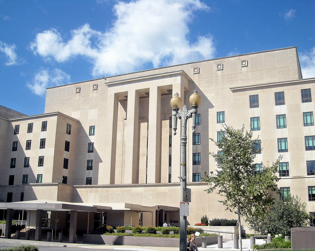 The Harry S. Truman Building located at 2201 C Street, NW in the Foggy Bottom neighborhood of Washington, D.C. It is the headquarters of the United States Department of State.